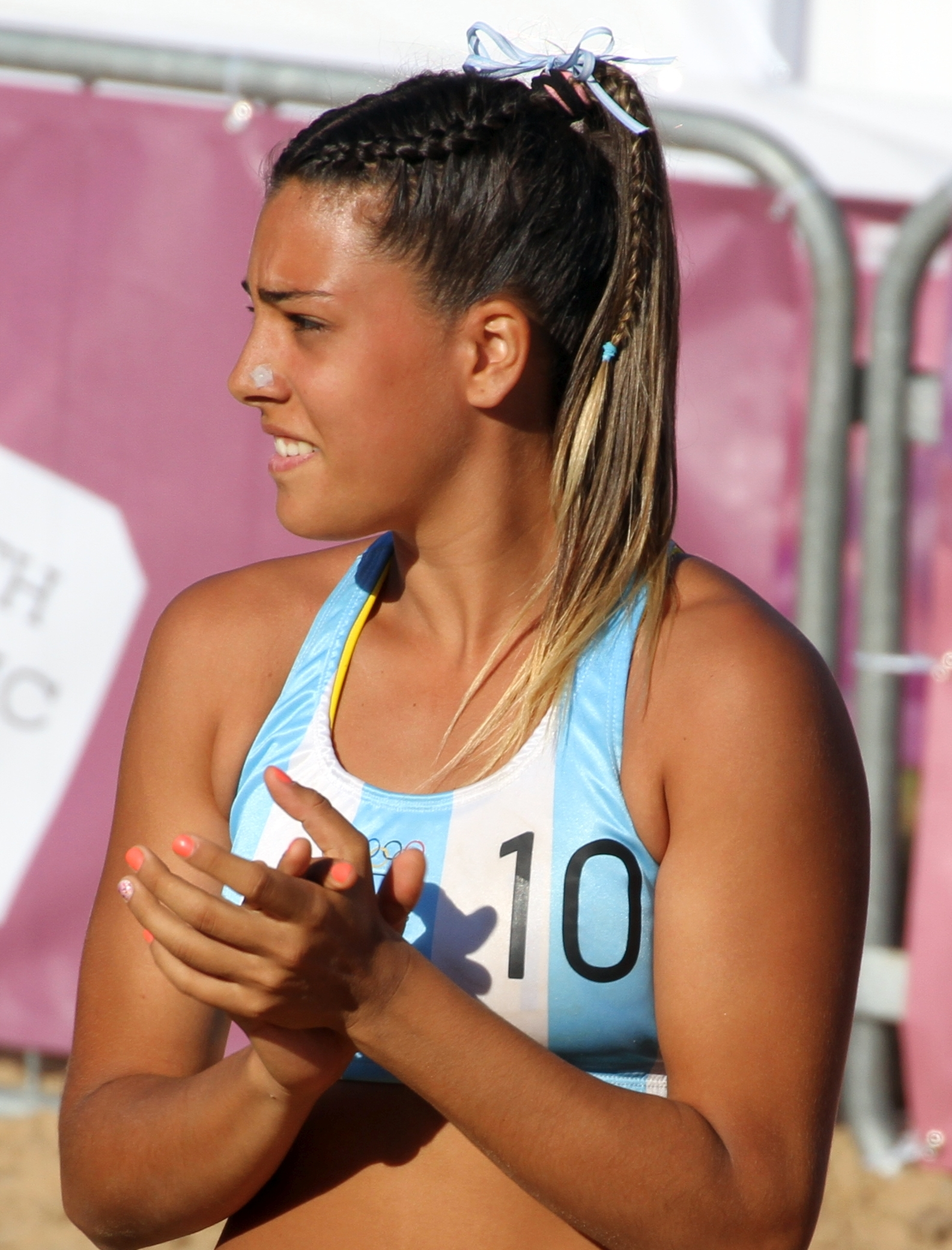 Beach handball at the 2018 Summer Youth Olympics at 9 October 2018 – Girls Preliminary Round Group B – Argentina-Hing Kong 2:0